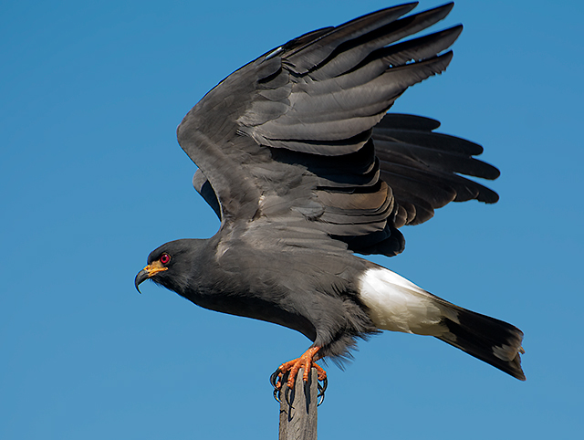 Snail kite (Rostrhamus sociabilis)